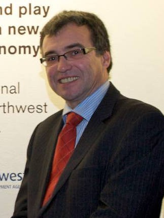 Phil Woolas, Labour MP for Oldham East and Saddleworth, visiting the University of Salford in 2009.